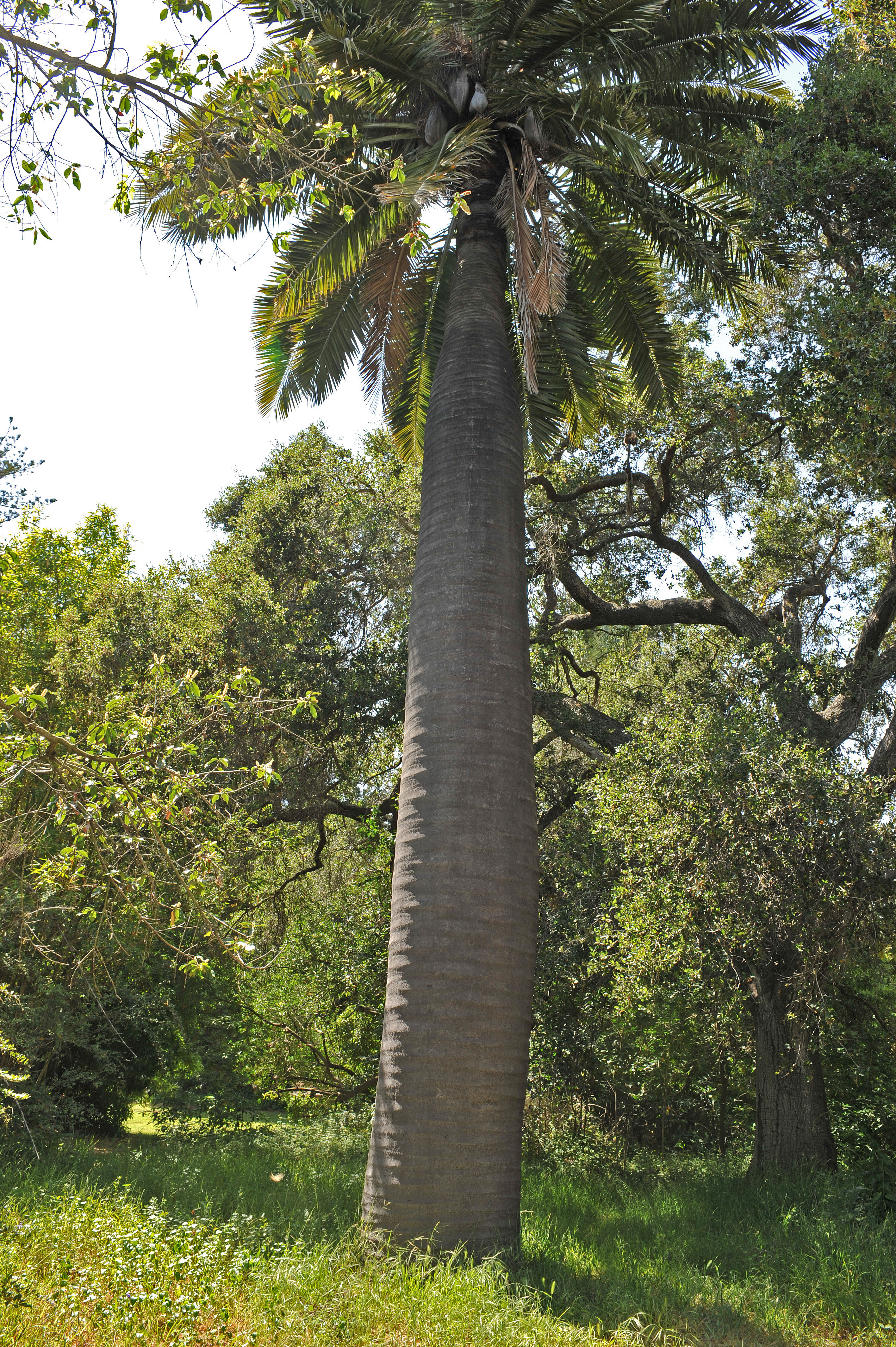 Mature Jubaea chilensis palm tree, located on the Stow property Goleta, California.